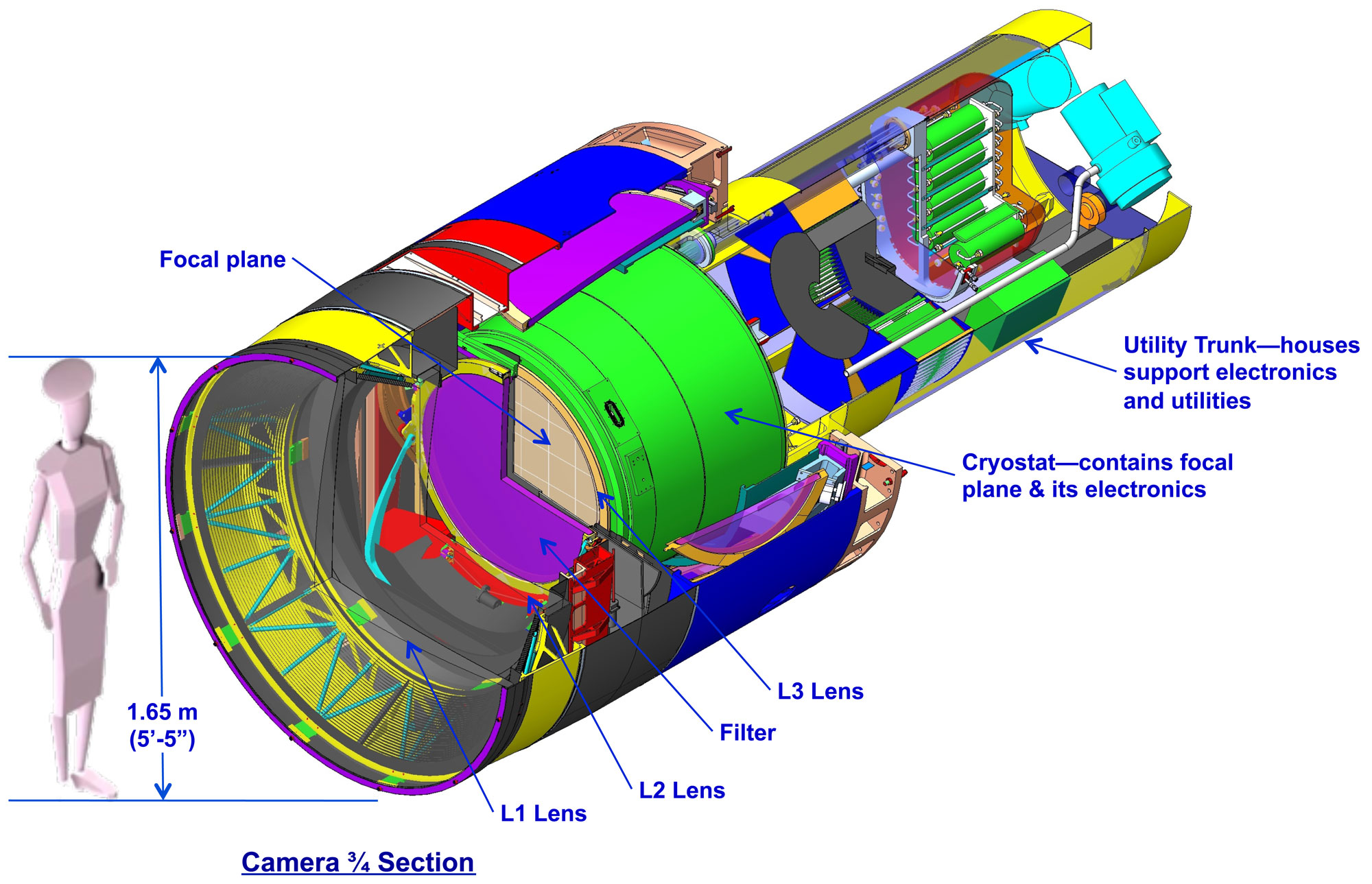 The LSST camera is designed to provide a wide field of view with better than 0.2 arcsecond sampling and spectral sampling in five or more bands from 400nm to 1060nm. The image surface is flat with a diameter of approximately 64 cm. The detector format will be a circular mosaic providing over 3 Gigapixels per image. The camera includes a filter mechanism and, if necessary, shuttering capability. The camera is positioned in the middle of the telescope. LSST